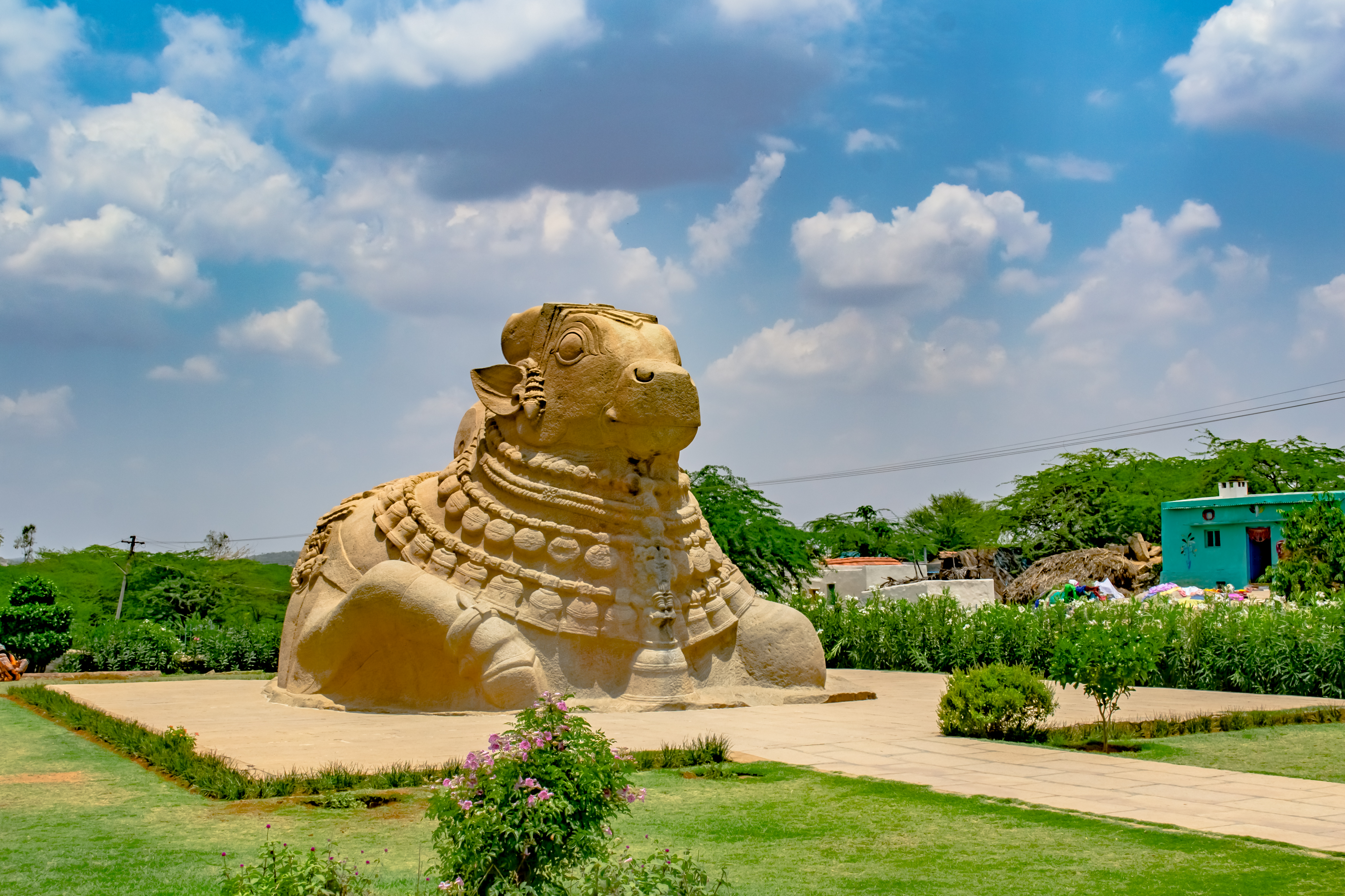 Virabhadra templeThe Nandi bull, mount of Lord shiva, is situated just 200 meters from the main Veerbhadra temple, Lepakshi. It is said to be the largest Nandi structure in the world.